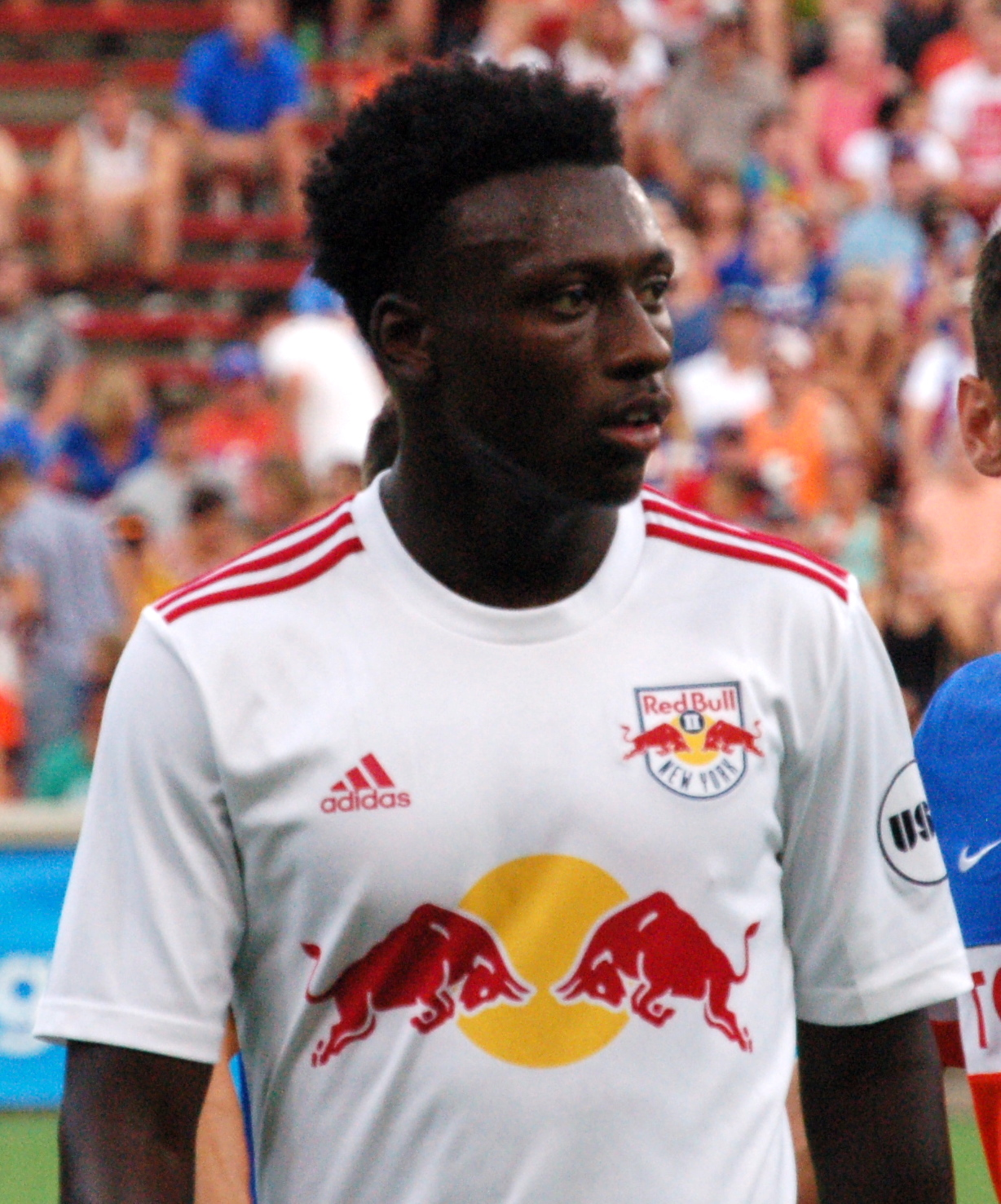 Derrick Etienne (NY), Eric Stevenson (CIN) Taken during a match between FC Cincinnati and New York Red Bulls II at Nippert Stadium in Cincinnati, USA on July 20, 2016.